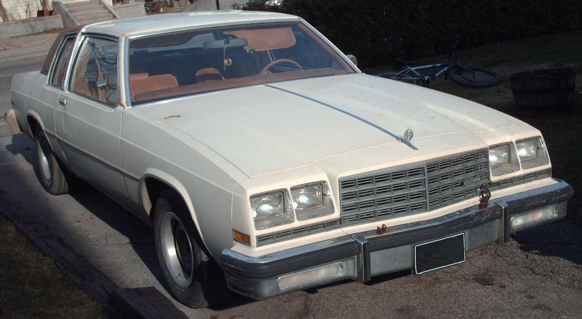 1980 Buick LeSabre photographed in Quebec, Canada.